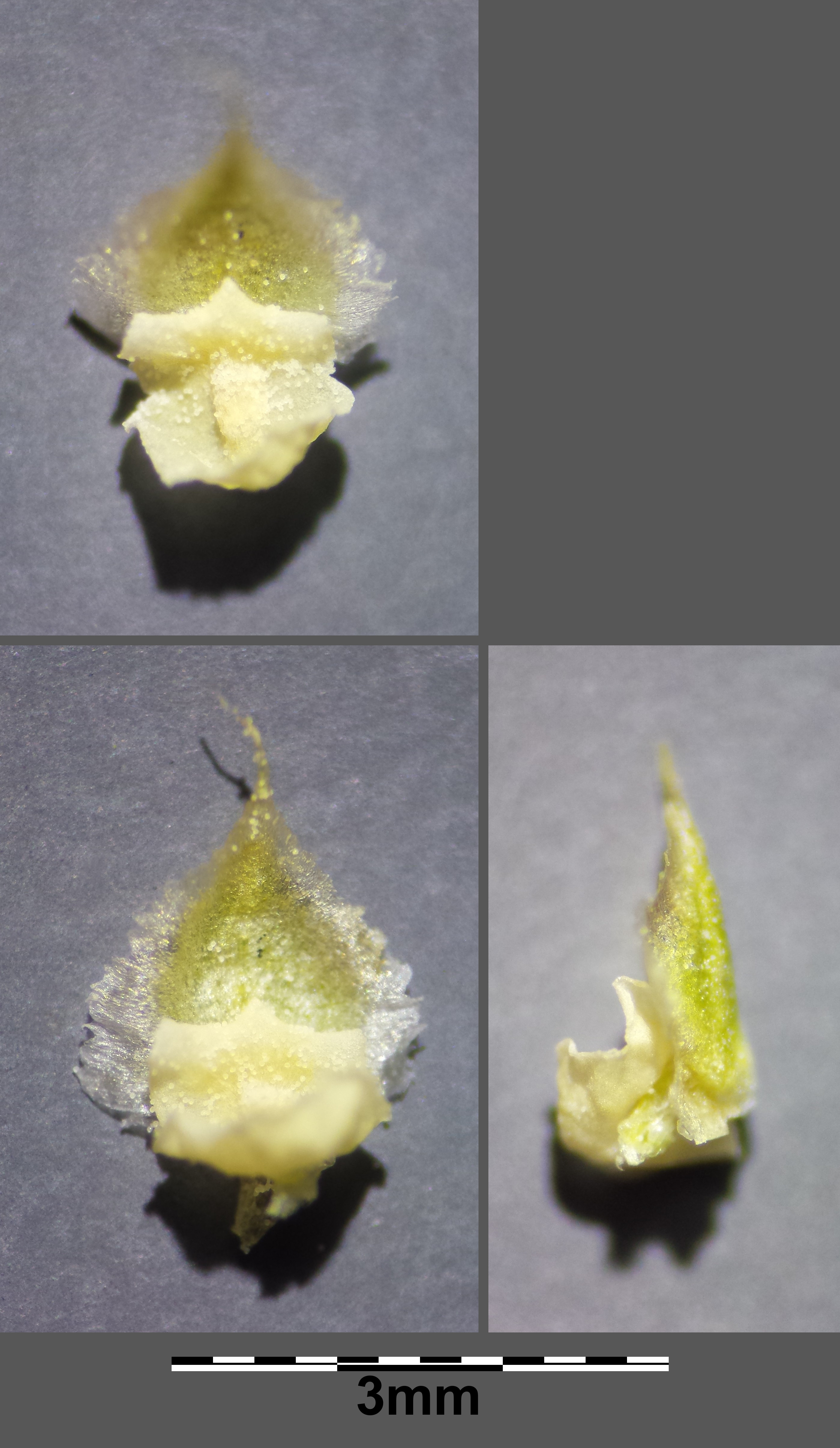 Sporophyll with one sporangium Taxonym: Lycopodium annotinum ss Fischer et al. EfÖLS 2008 ISBN 978-3-85474-187-9 Location: next to Bad Mitterndorf, district Liezen, Styria, Austria - ca. 800 m a.s.l. Habitat: cool wood